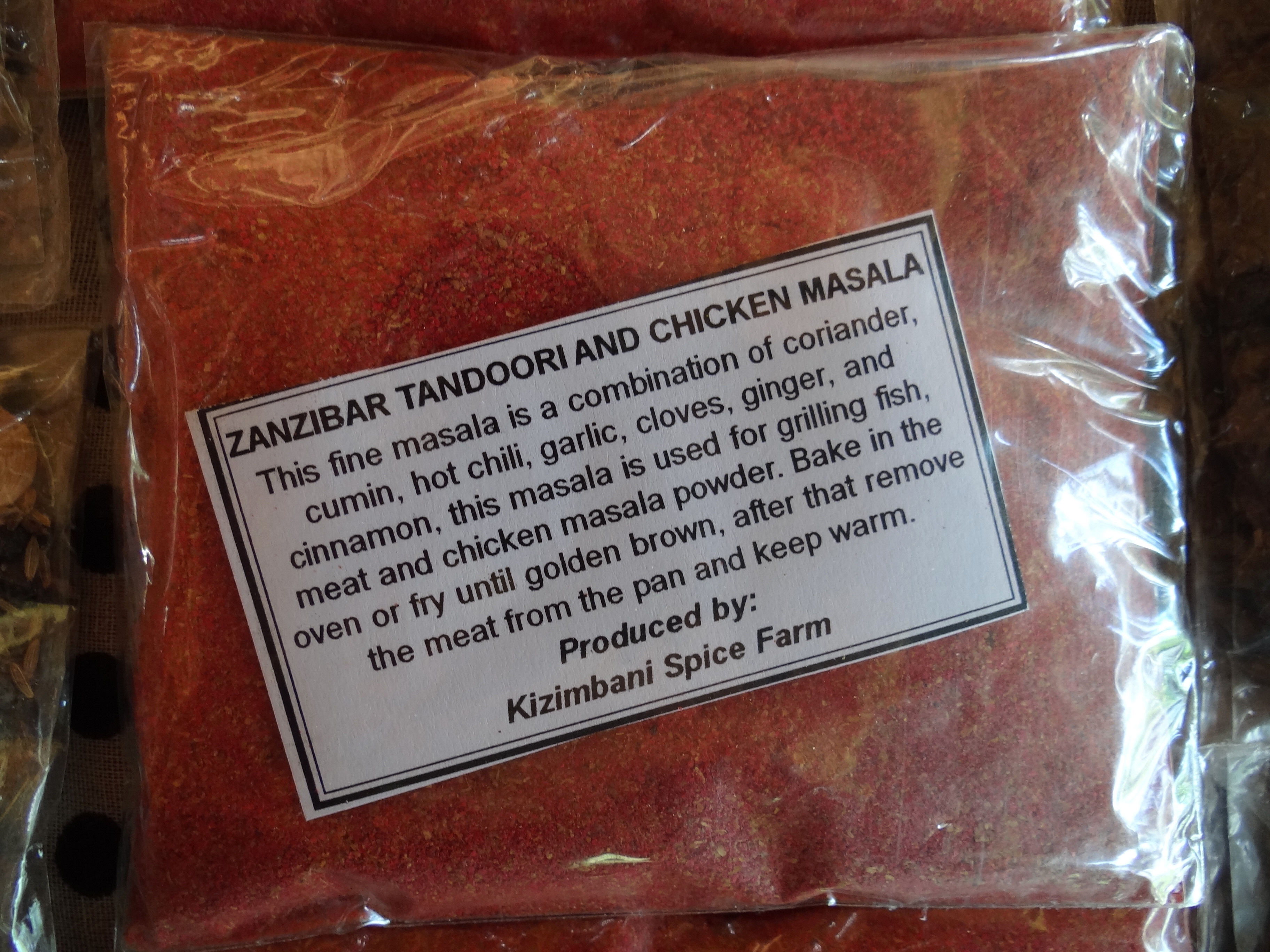 Packet of Zanzibar Tandoori and Chicken Masala - Spice Plantation - Outside Stone Town - Zanzibar - Tanzania